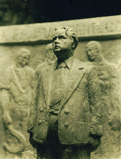 Statue of Paul Vaillant-Couturier, project of monument by the sculptor Victor Nicolas in 1950.